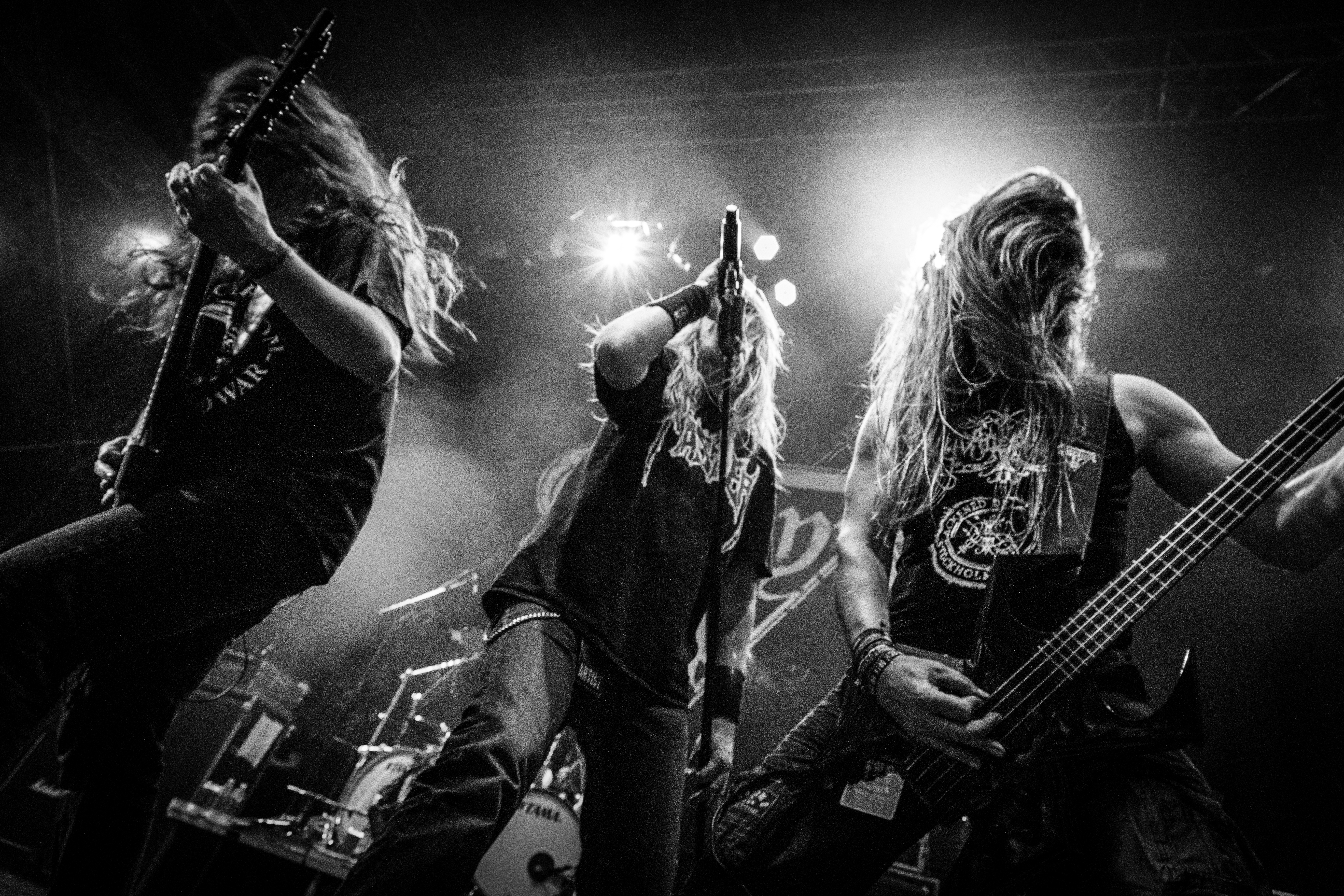 Asphyx live at Turock Open Air 2016